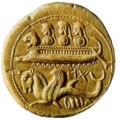 Ancient Phoenician coin.